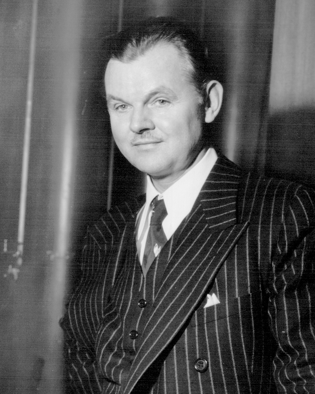 Photo of vocalist Lawrence Tibbett.